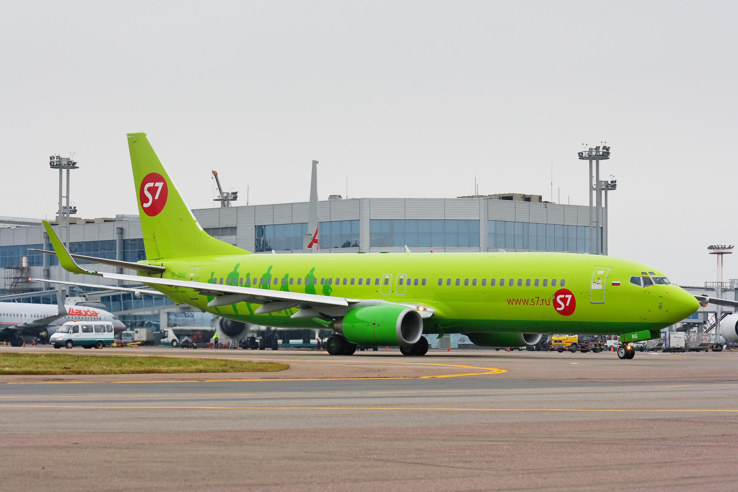 S7 Boeing-737-800 at Domodedovo Airport